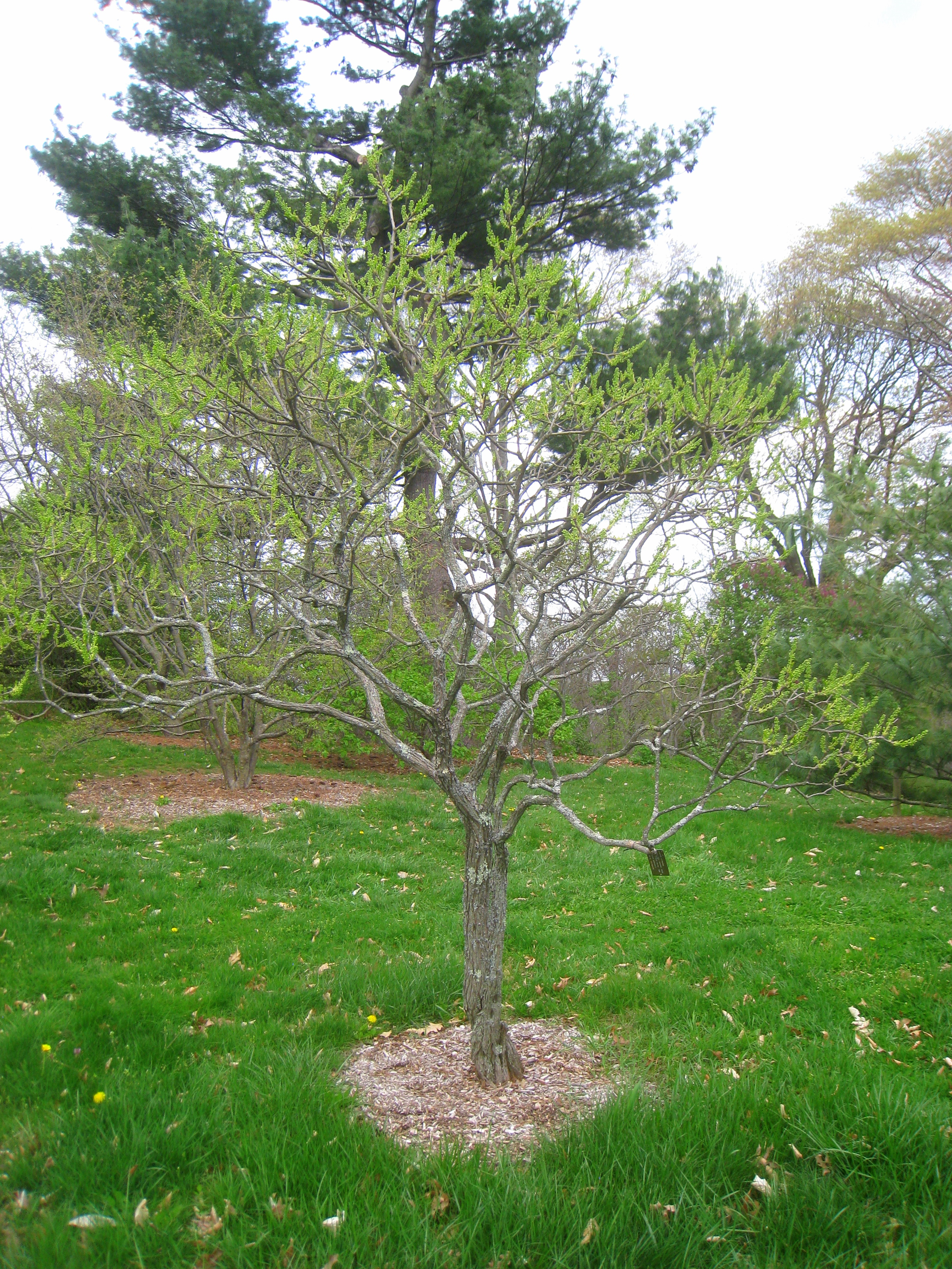 Xanthoceras sorbifolium, Arnold Arboretum, Jamaica Plain, Boston, Massachusetts, USA.